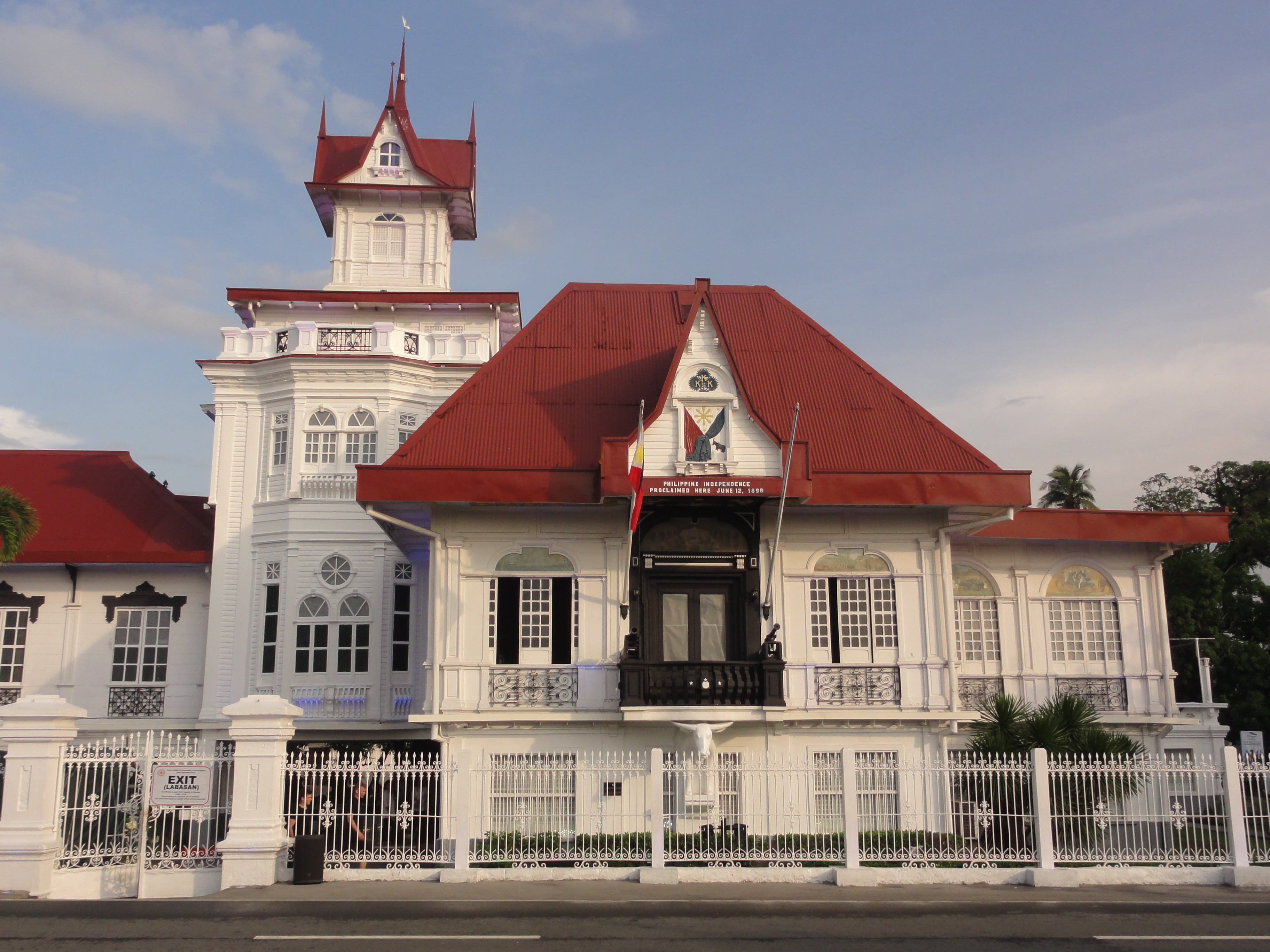 Front view of Aguinaldo House in Kawit, Cavite as of June 11, 2015. The national shrine is known for being the place of Philippine declaration of independence by Emilio Aguinaldo on June 12, 1898.